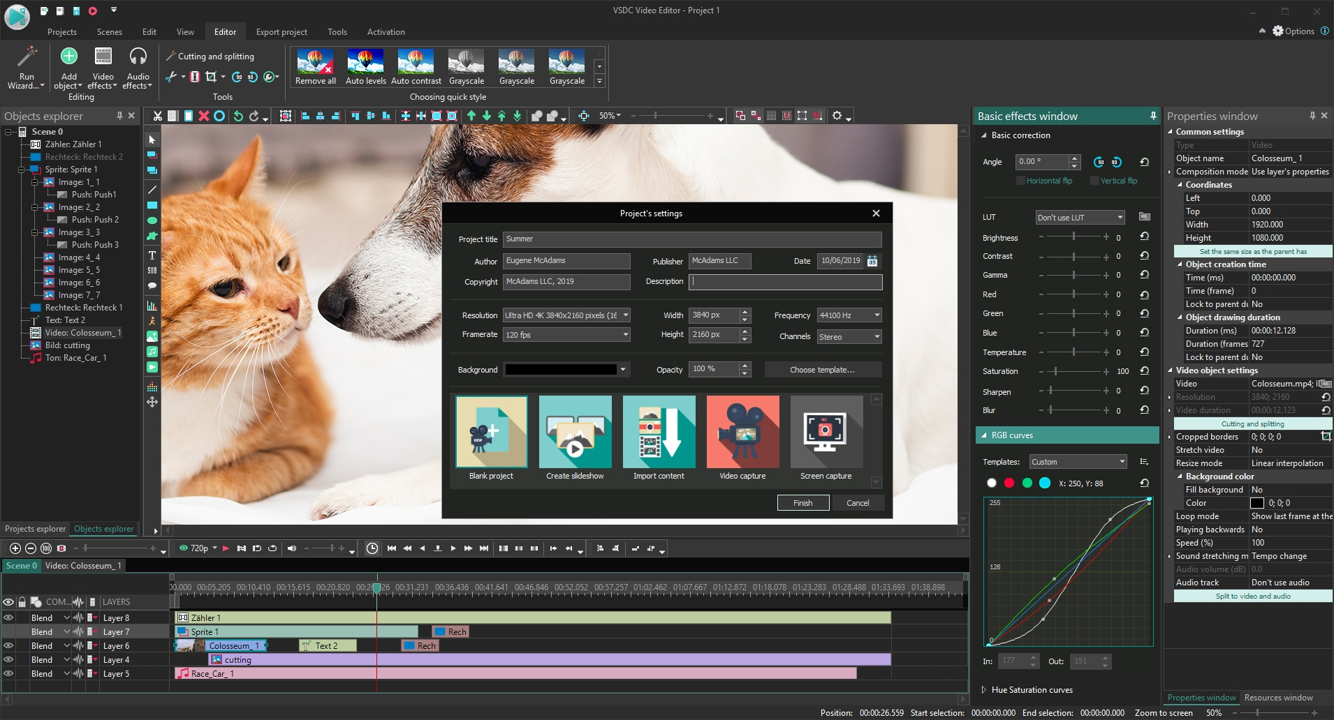 The window that pops up when you open the Project settings menu. It includes the name of the author, the parameters of the video, etc.